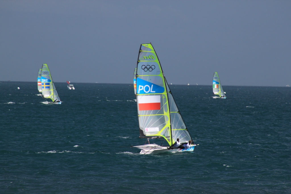 A heat of the 2012 Olympics men's 49er race, with the Polish boat in the foreground (Łukasz Przybytek and Paweł Kołodziński from Gdańsk).